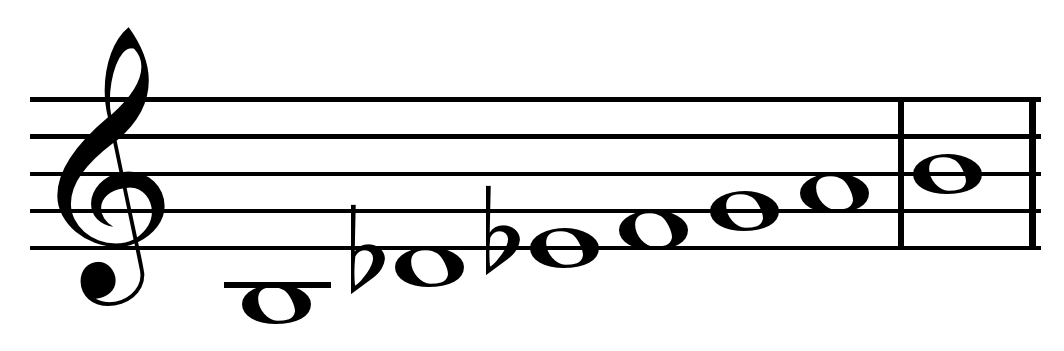 Whole tone scale on B. Created by Hyacinth using Sibelius and Paint.